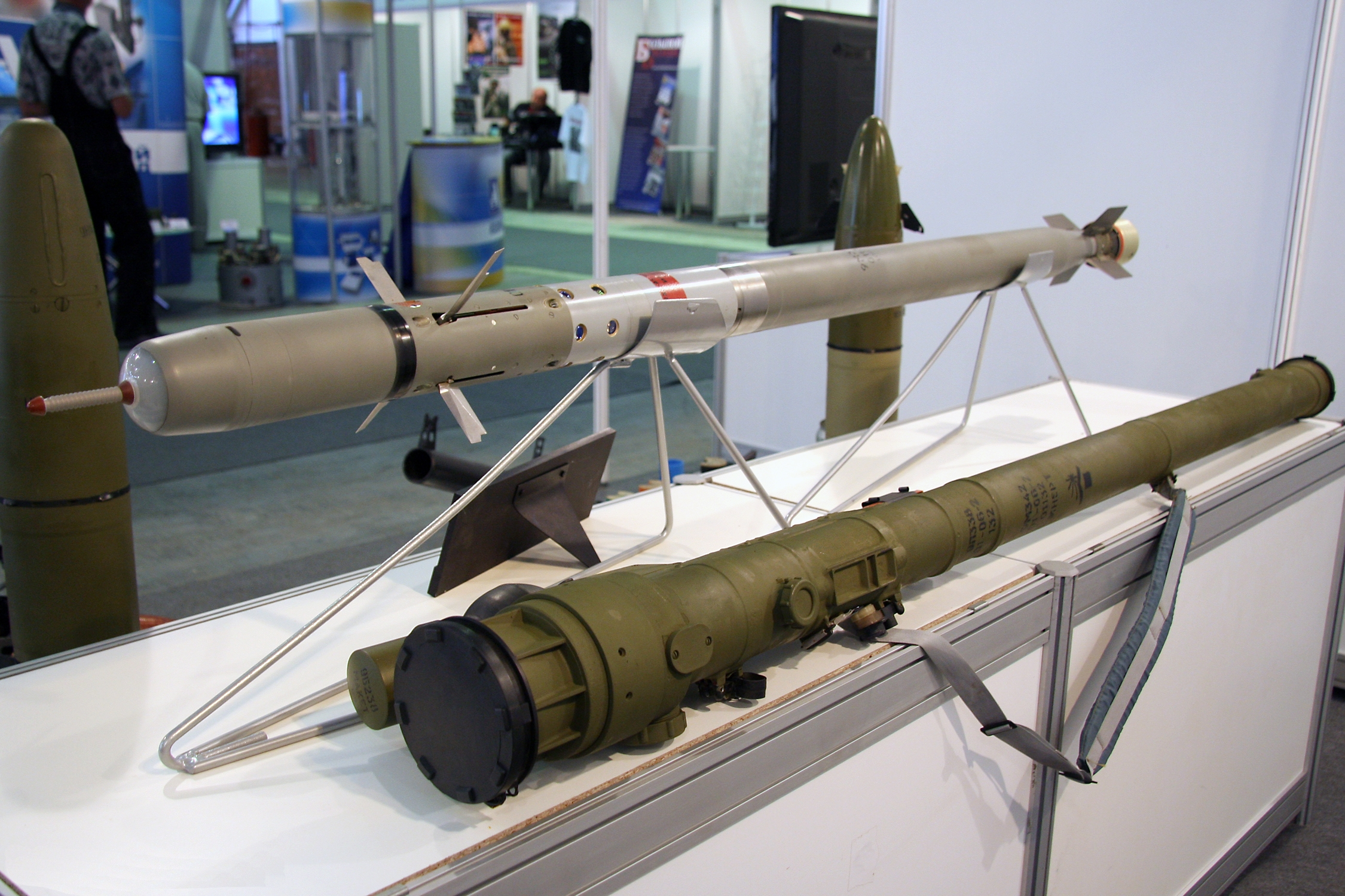 Missile 9M342 of the portable anti-aircraft missile system Igla-S.